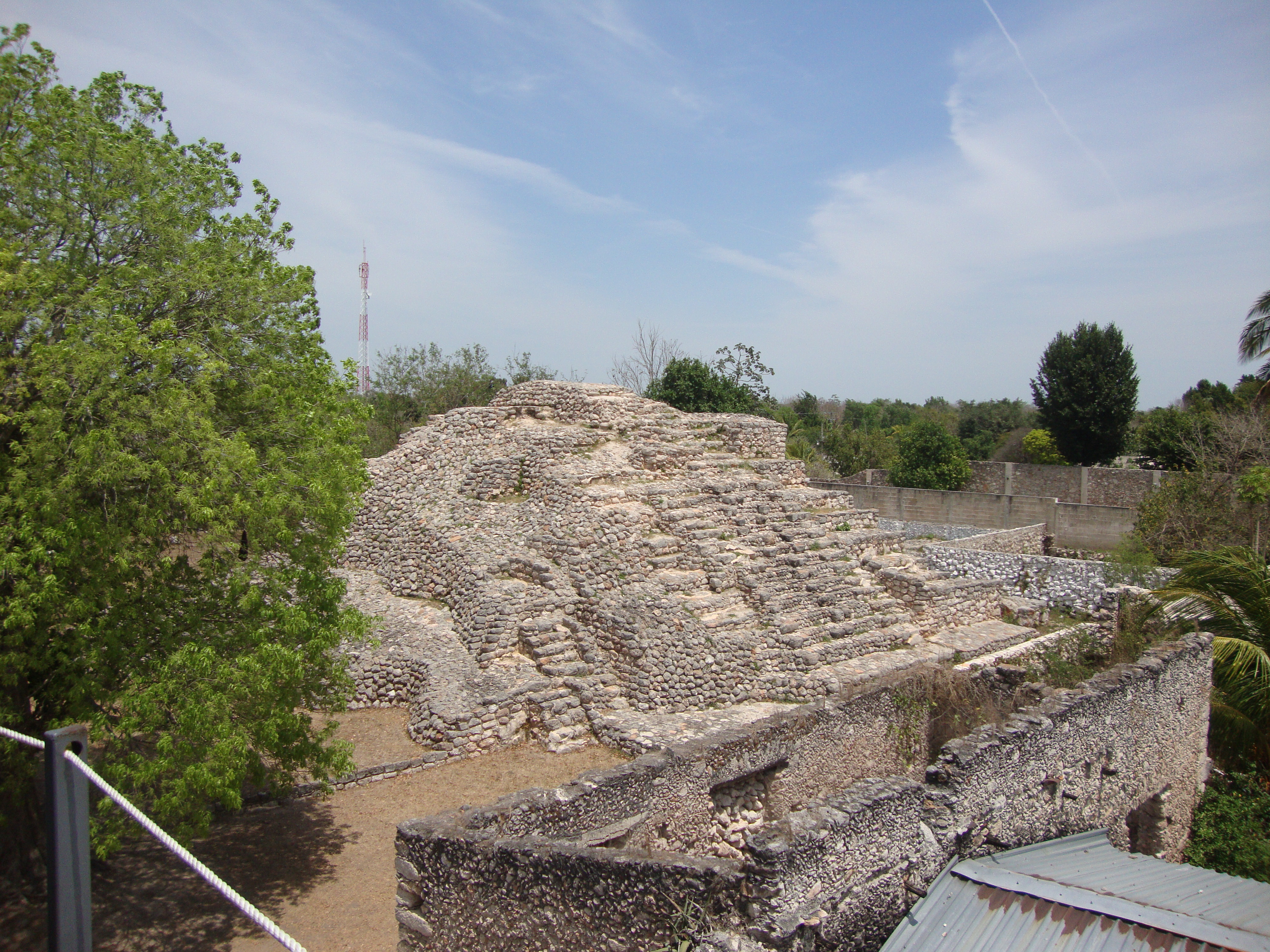 Pyramid at Acanceh